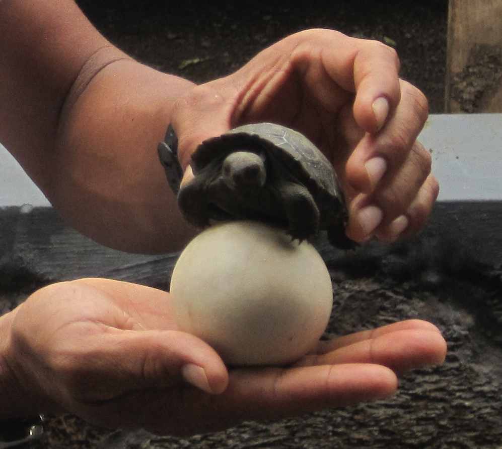 A tour guide for the Galapagos National Park holds on his hands a Galapagos tortoise egg and hatchling